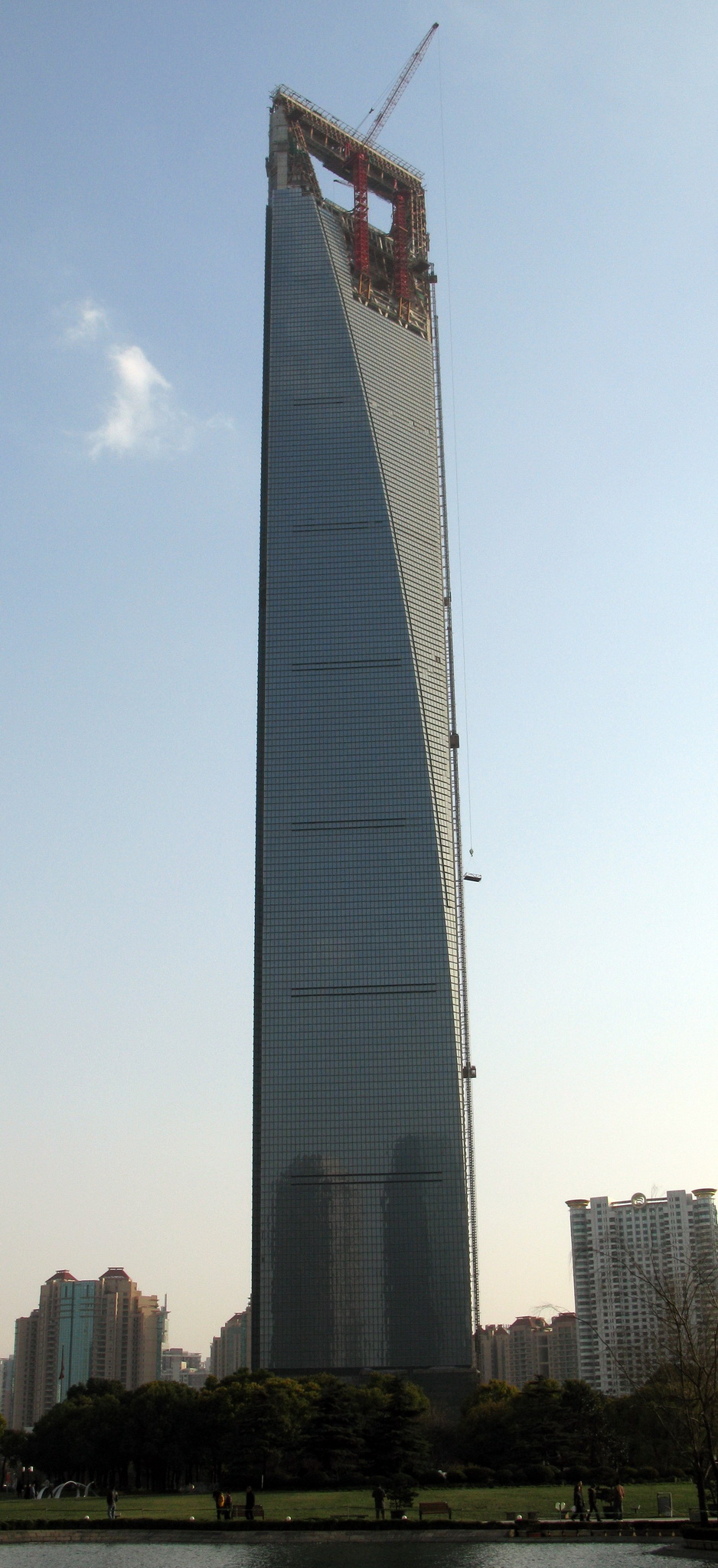 建築中的上海環球金融中心 Shanghai World Financial Center under construction